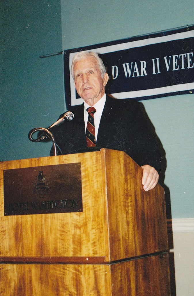 Edgar Whitcomb